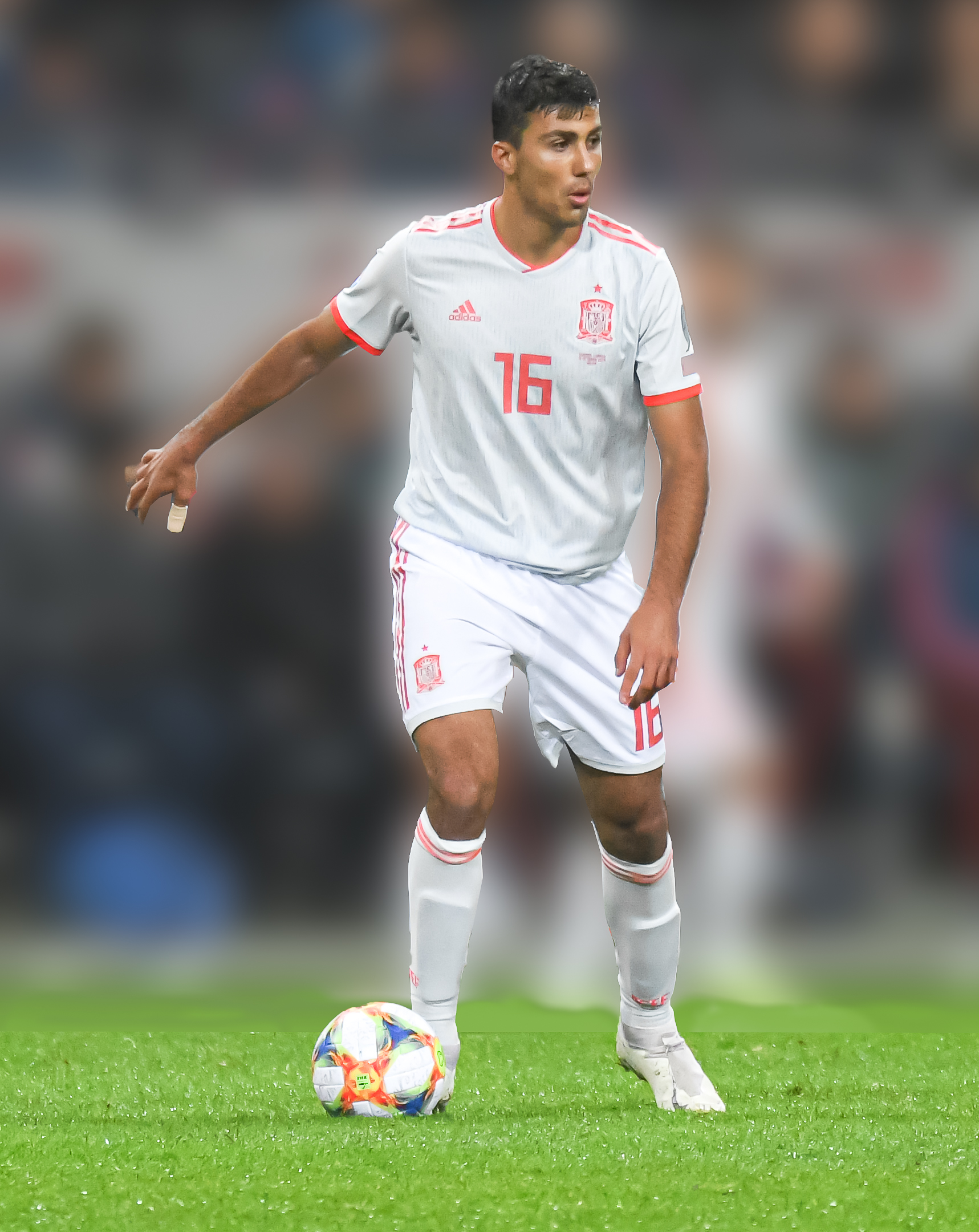 UEFA_EURO_qualifiers_Sweden_vs_Spain_20191015